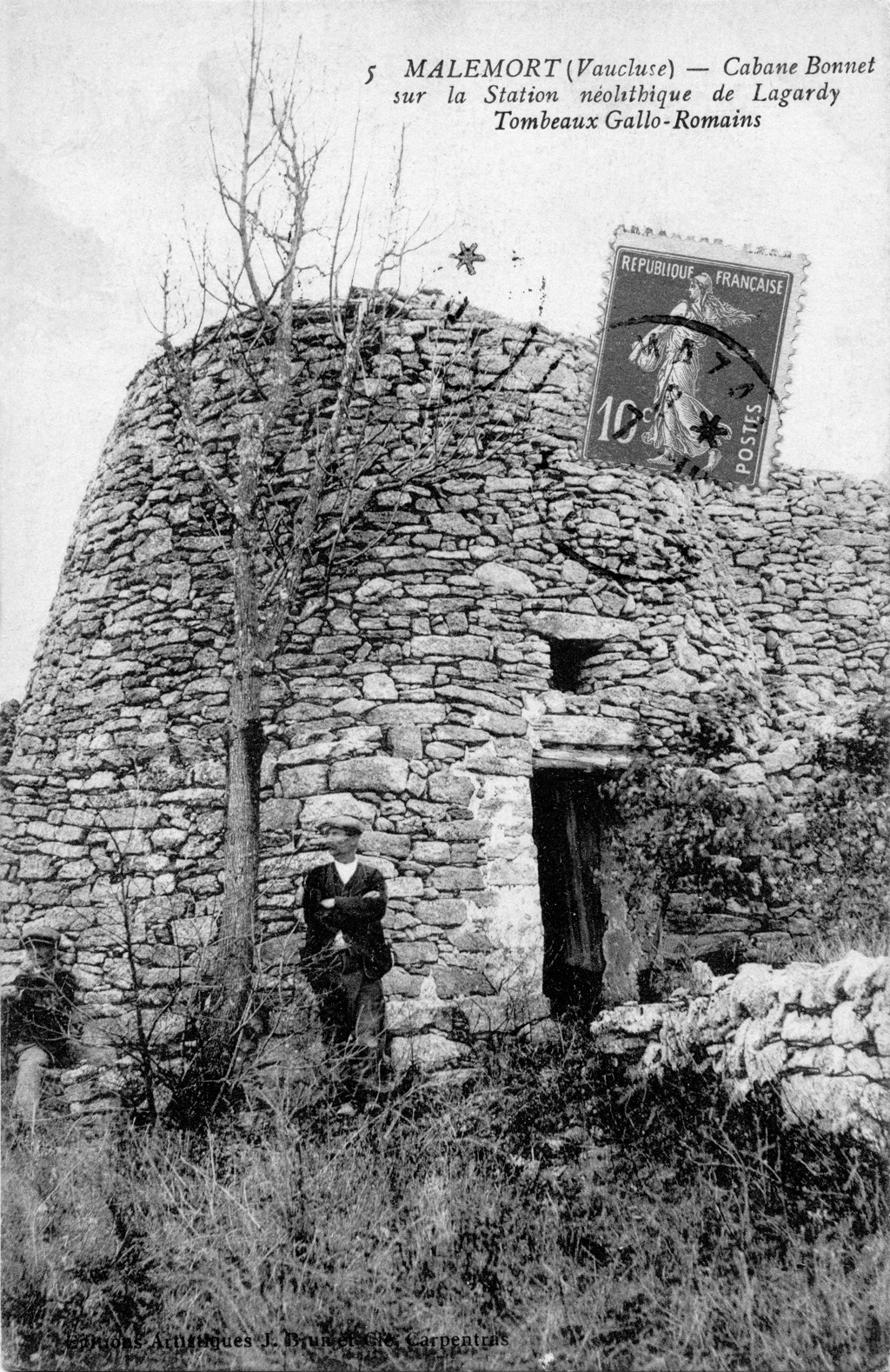 Dry stone hut going by the name of "cabane Bonnet" at Malemort-du-Comtat, Vaucluse, France.